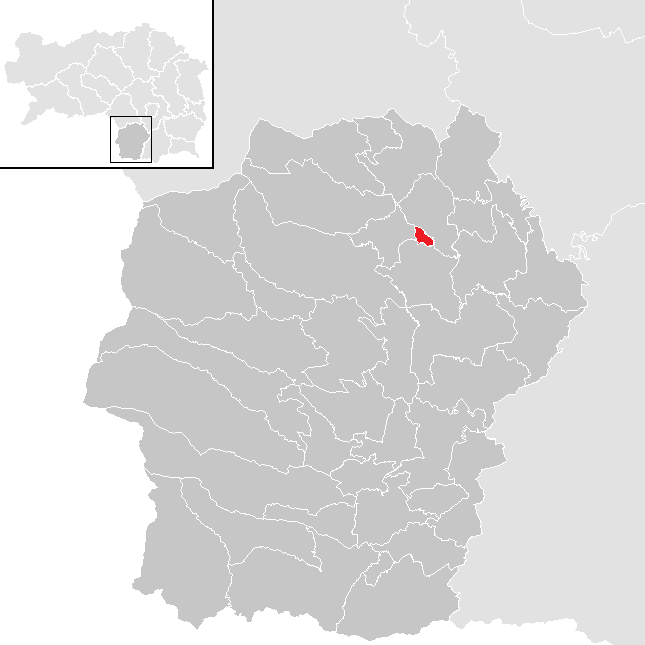 District Deutschlandsberg, Styria, Austria